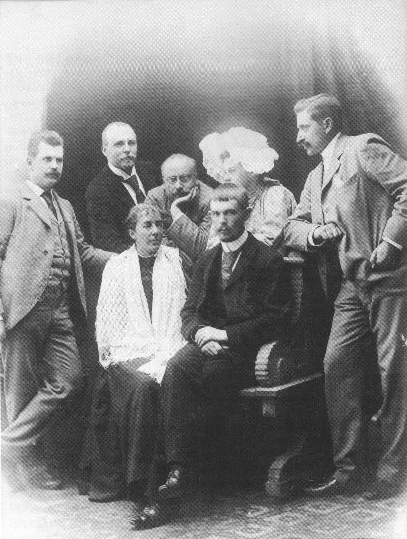 A group of influential Swedish critics and authors of the 1890s. From left: Critic Edvard Alkman, painter Gustaf Ankarcrona, author Gustaf Fröding, Heidenstam's wife Olga Wiberg, author Verner von Heidenstam. Sitting: Cecilia Fröding and artist Albert Engström